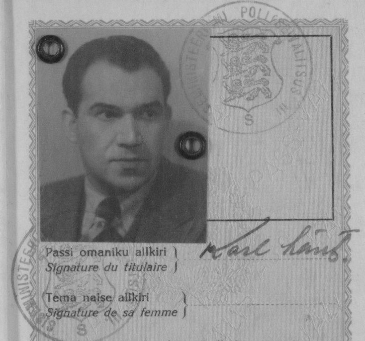 Estonian actor Karl Länts (Kaarel Karm)